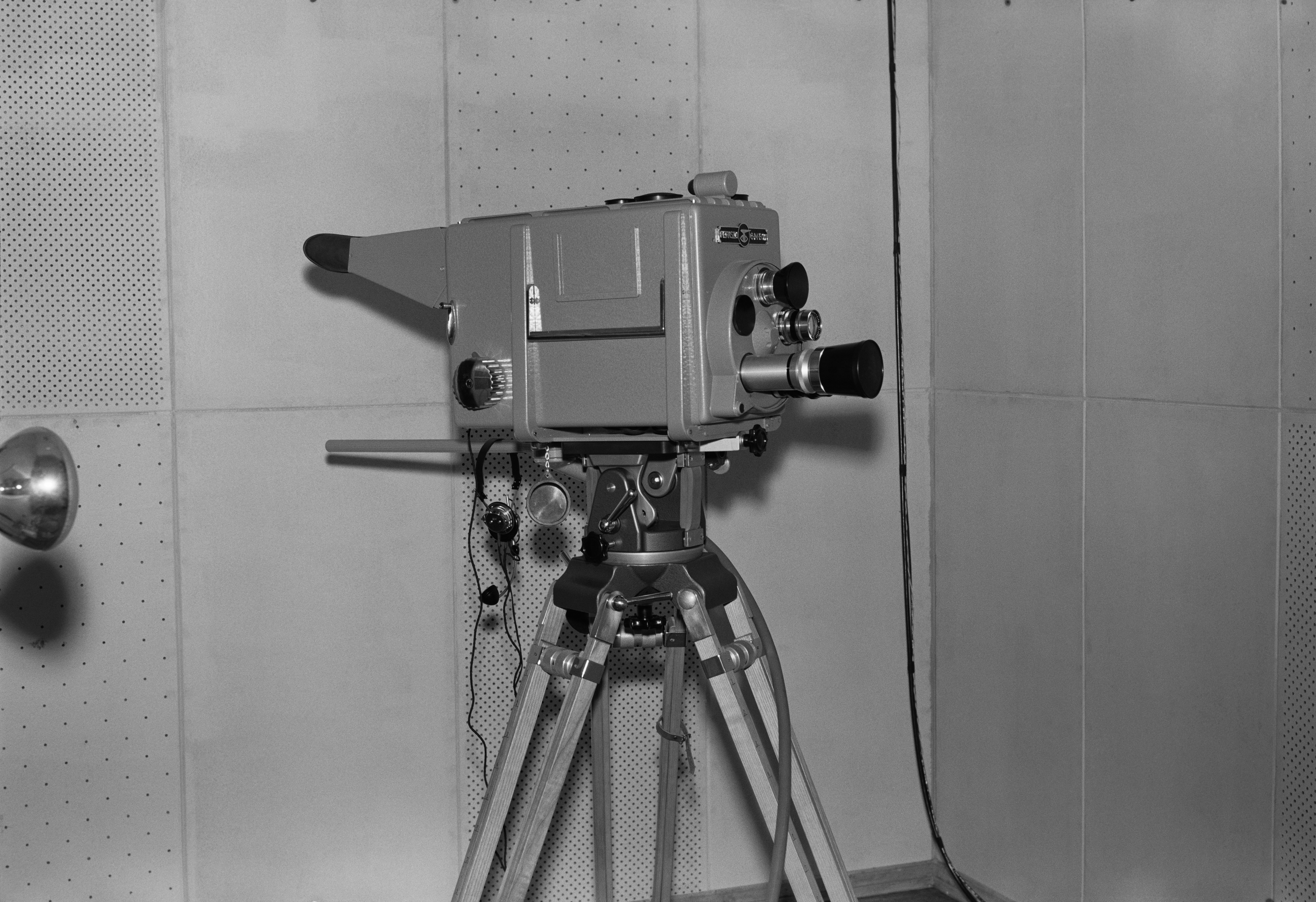 Yleisradion televisiotoiminnan alkuvaiheet. Yleisradion television ensimmäinen Fernseh GmbH:n valmistama Fernseh tyyppi KIO, Orthikon-kamera (ortikon kameraputket), jonka linssien polttoväli on 50 mm, 75 mm, 100 mm ja 150 mm. Televisiokamera (tv-kamera). Photo: Ruth Träskman/Yle. Tiedätkö jotain tästä kuvasta? Jätä kommentti tai ota yhteyttä sähköpostitse: Tutustu Ylen arkistosisältöihin: Fler skatter från Yles arkiv: More about Yle, the Finnish Broadcasting Company